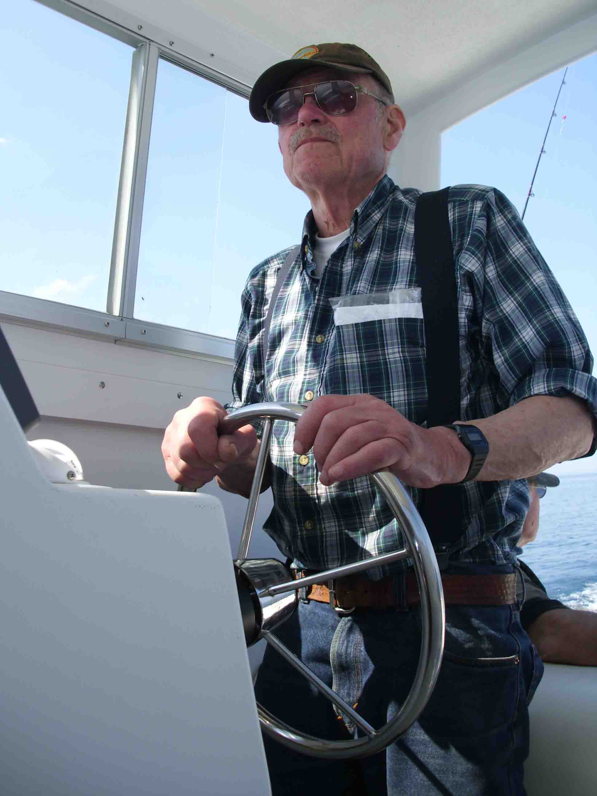 Renn Tolman piloting Fithian Jumbo March 2012 Lake Michigan